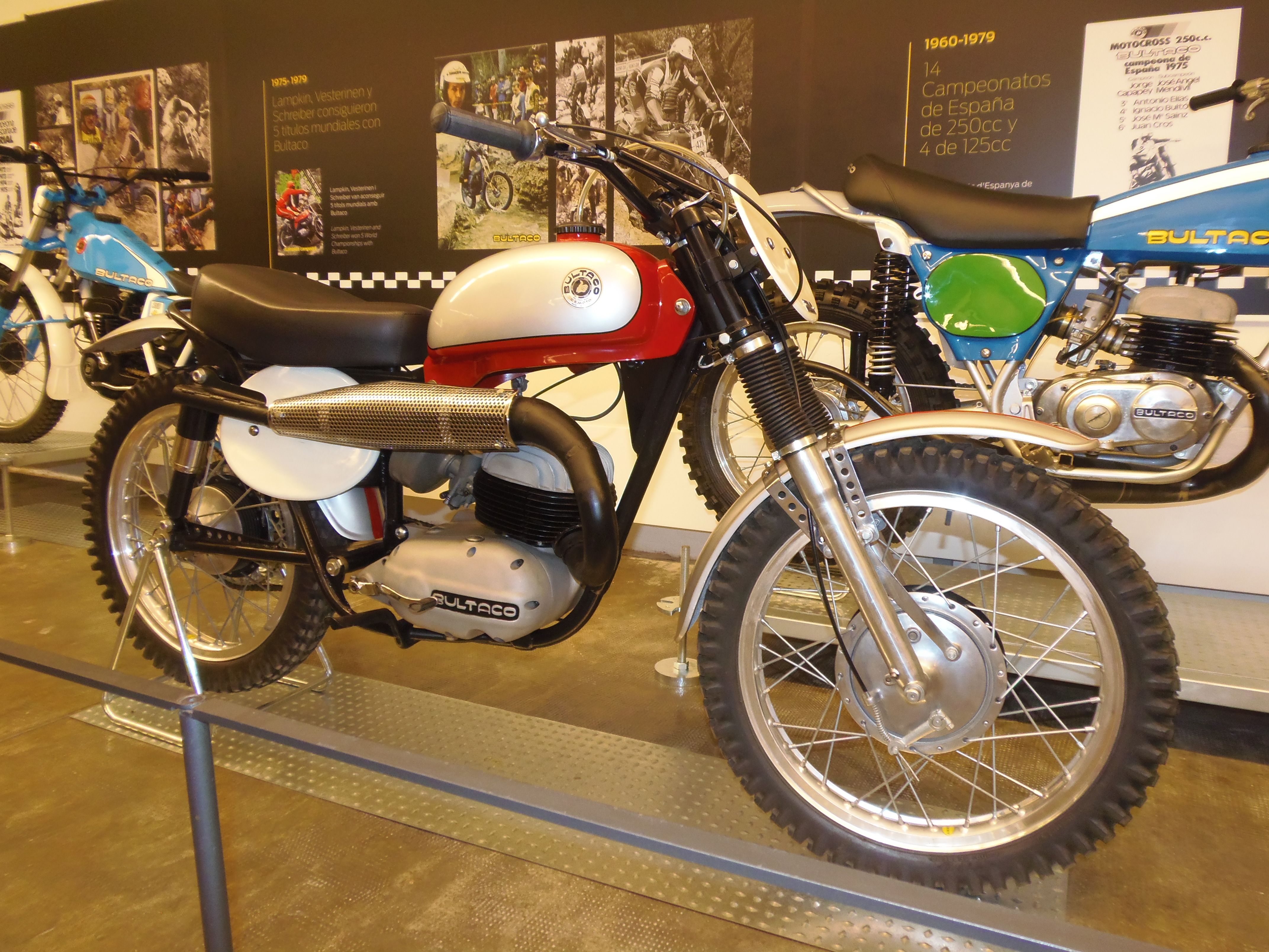 Bultaco Sherpa S 125, 125cc, 1964